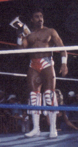 Marc Mero as Intercontinental Champion at a WWF event in 1996